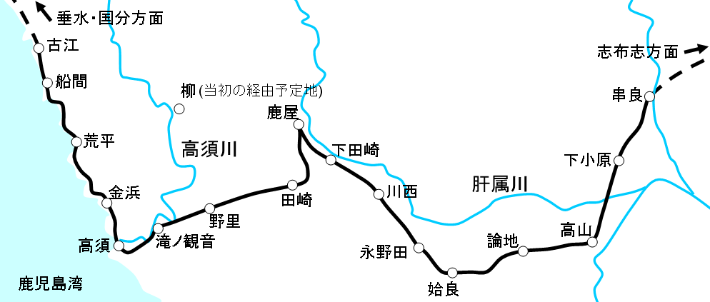 Abstract route map of Osumi railway, Kagoshima, Japan. The railway was nationalized in 1935 and lator became Osumi line, which was abondoned in 1987. The map is not to scale.